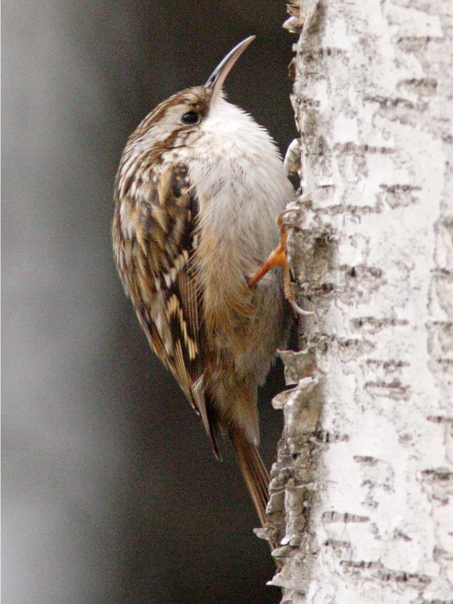 A short-toed treecreeper from Germany.